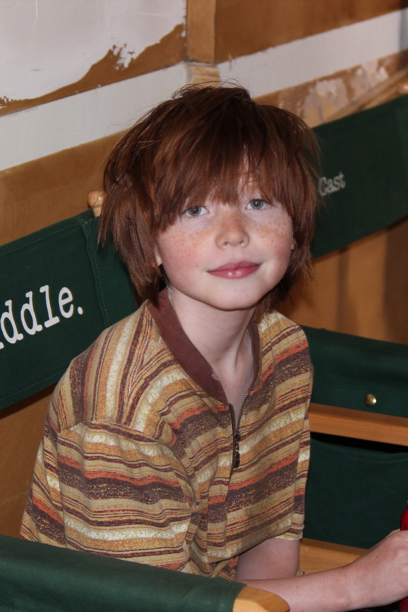 Parker Bolek as Wade Glossner